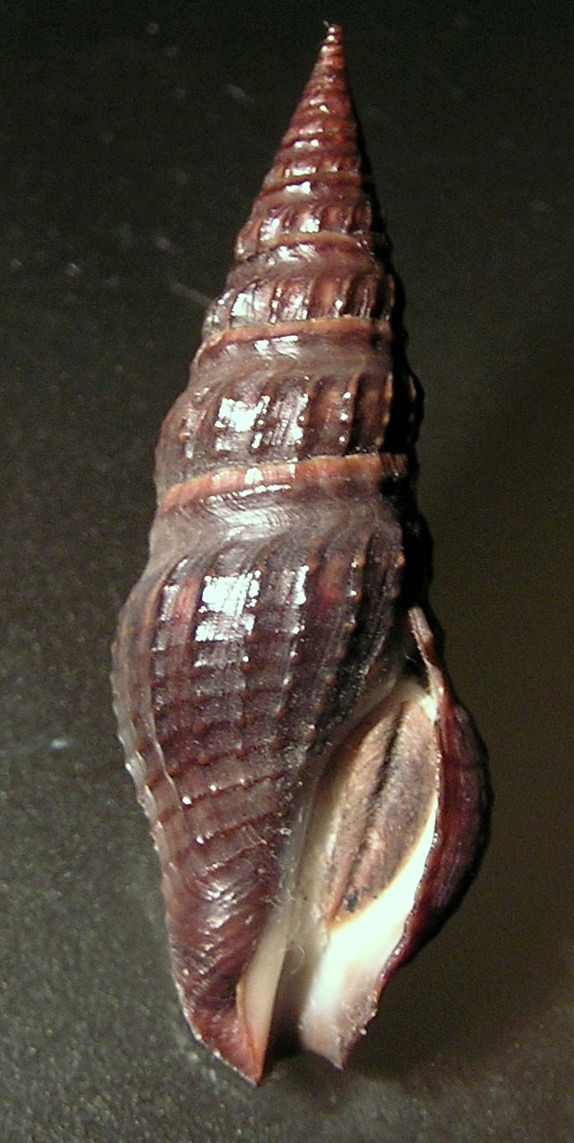 Crassispira incrassata (Sowerby I, 1834) ; a turrid snail from the family Pseudomelatomidae; Panama Category:Turridae